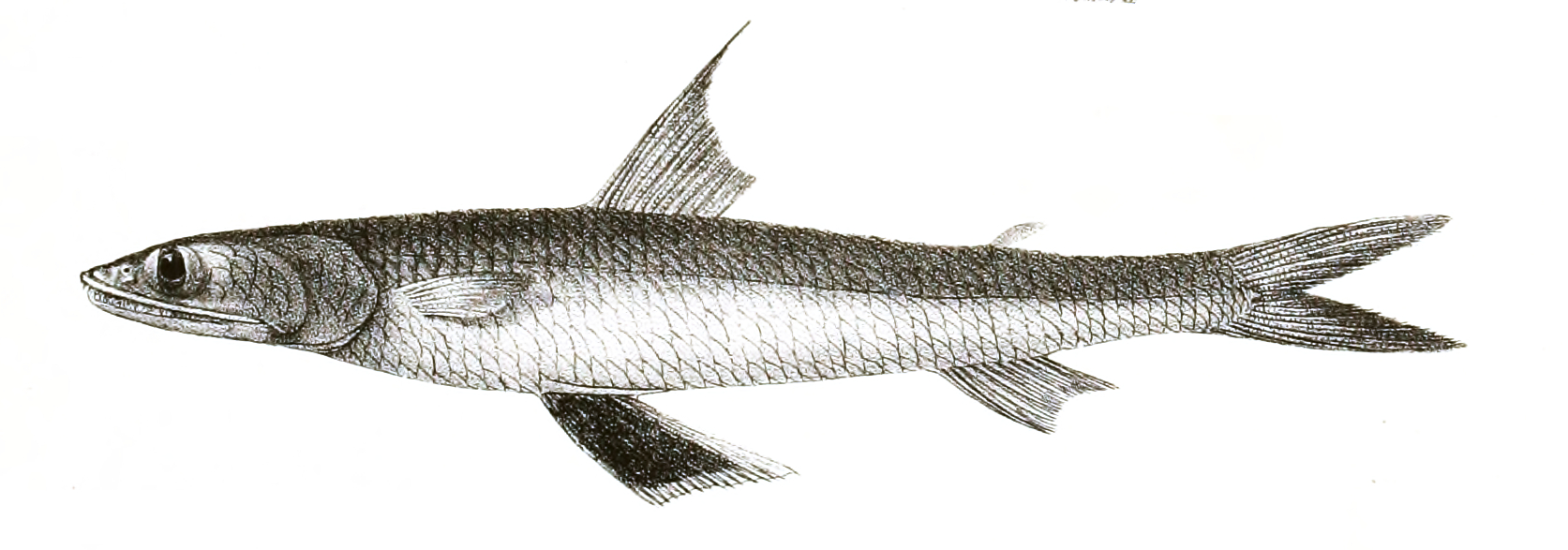 The species names / identity need verification - original names from plate are included here. The original plates showed the fishes facing right and have been flipped here. Saurida tumbil